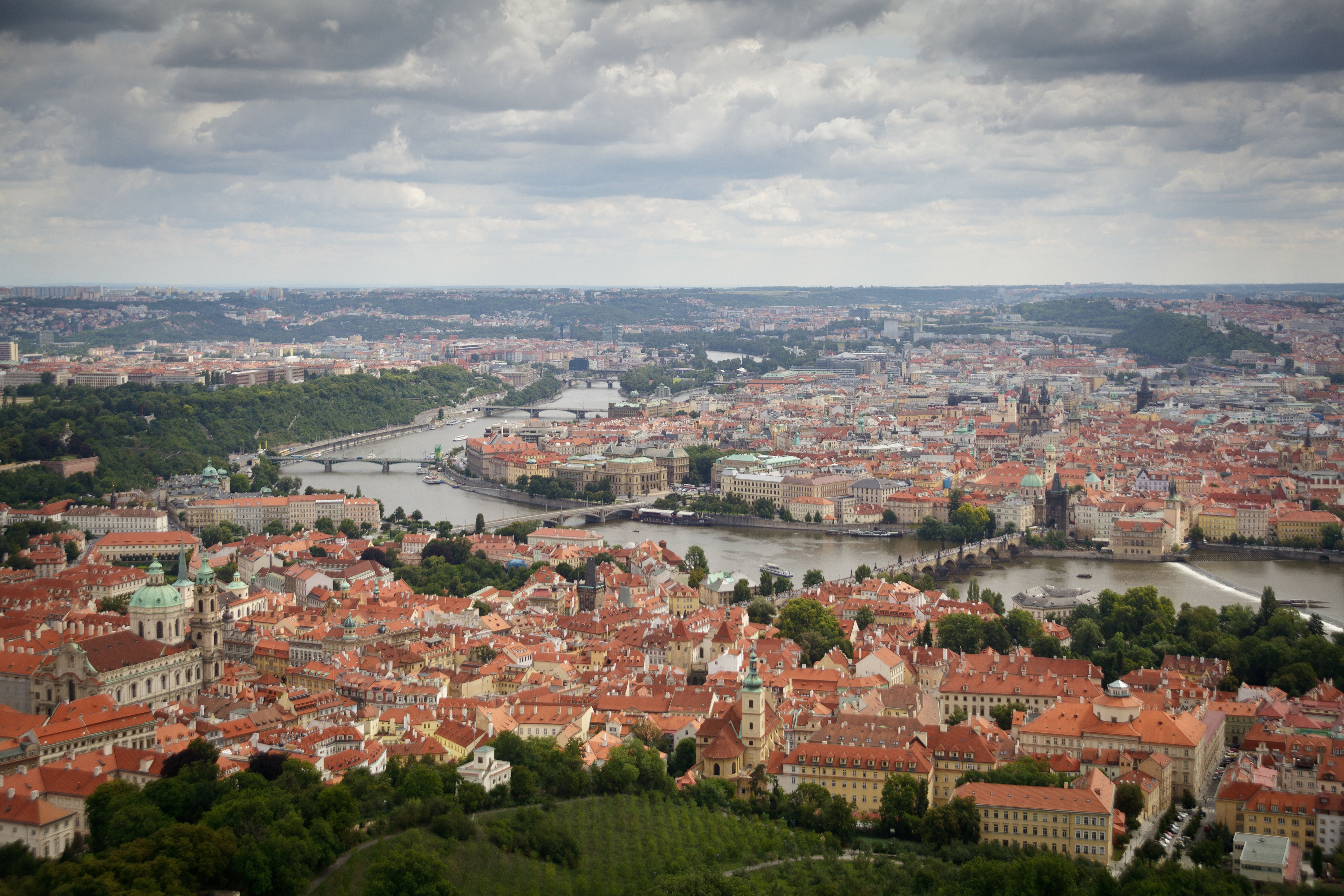 Prague 1, Czech Republic